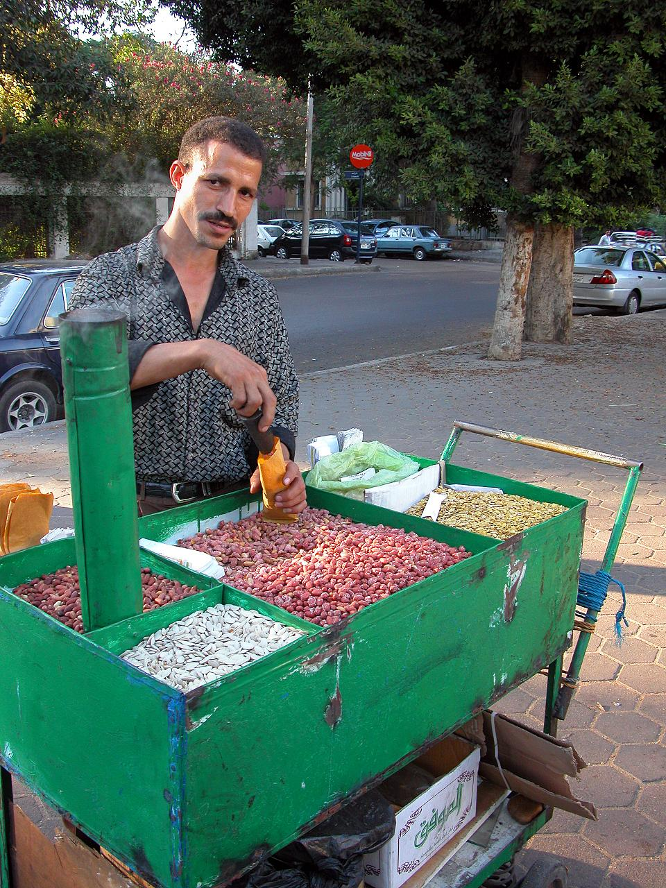 Man was selling roasted nuts for 5 Egyptian Pounds, approx. 1 Canadian Dollar. Cairo, Egypt